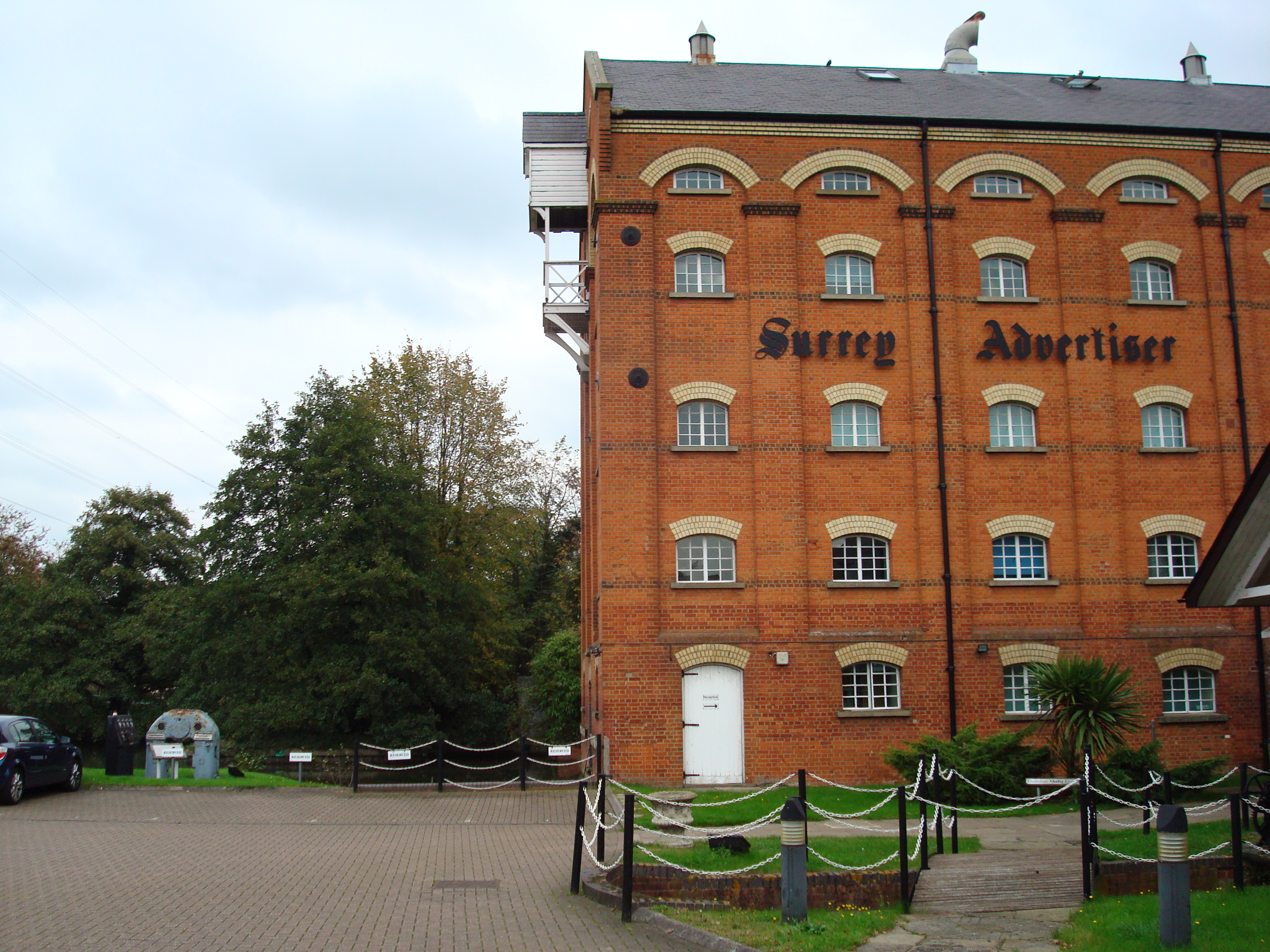 Building of Surrey Advertiser (S Knights, Oct 2007, my pics)